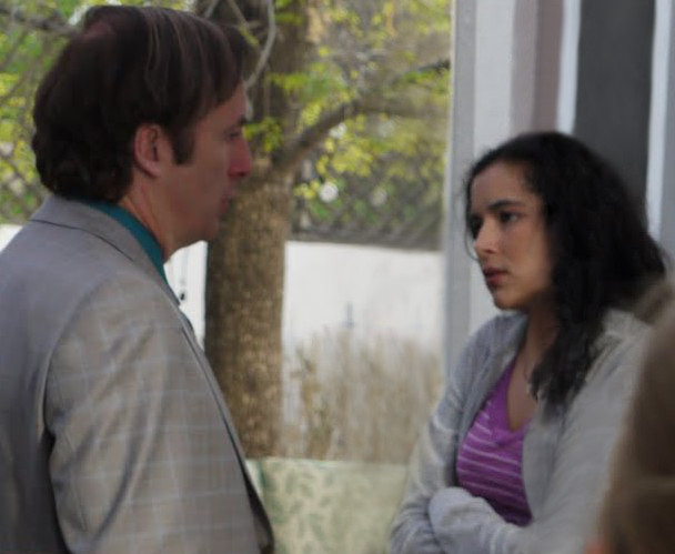 Bob Odenkirk and Emily Rios 2011 at the set of Breaking Bad of the episode 4x08 Hermanos.